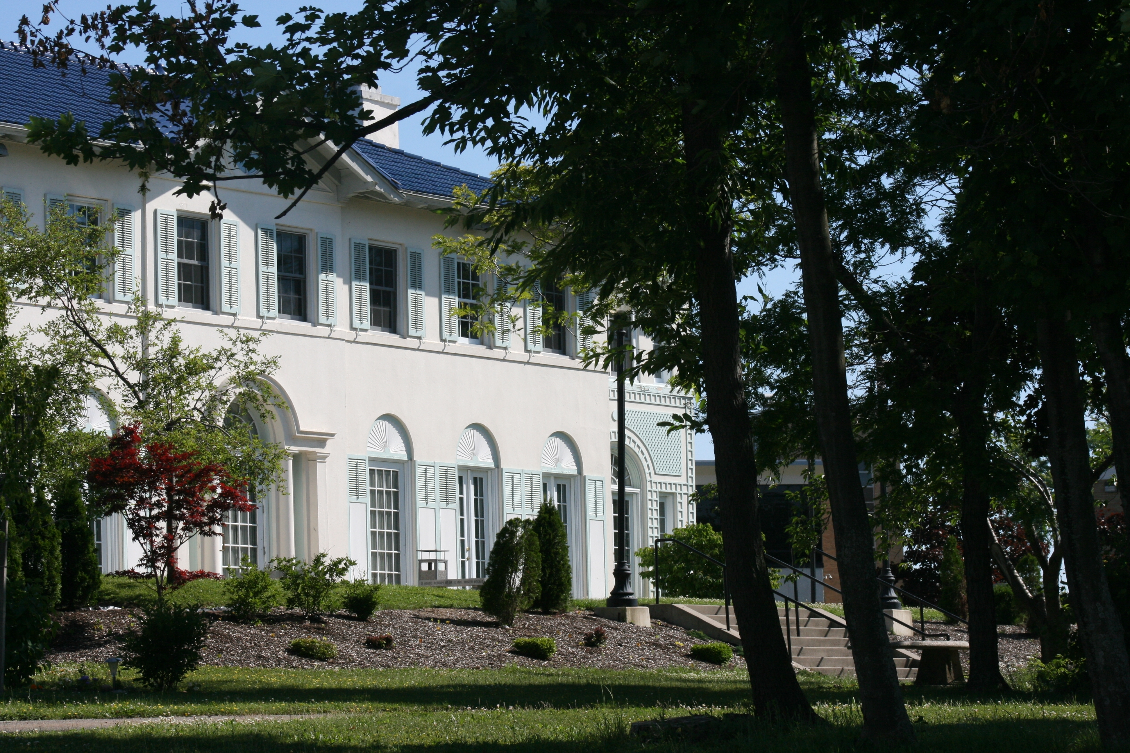 Photograph of Rosary Hall at Daemen College.